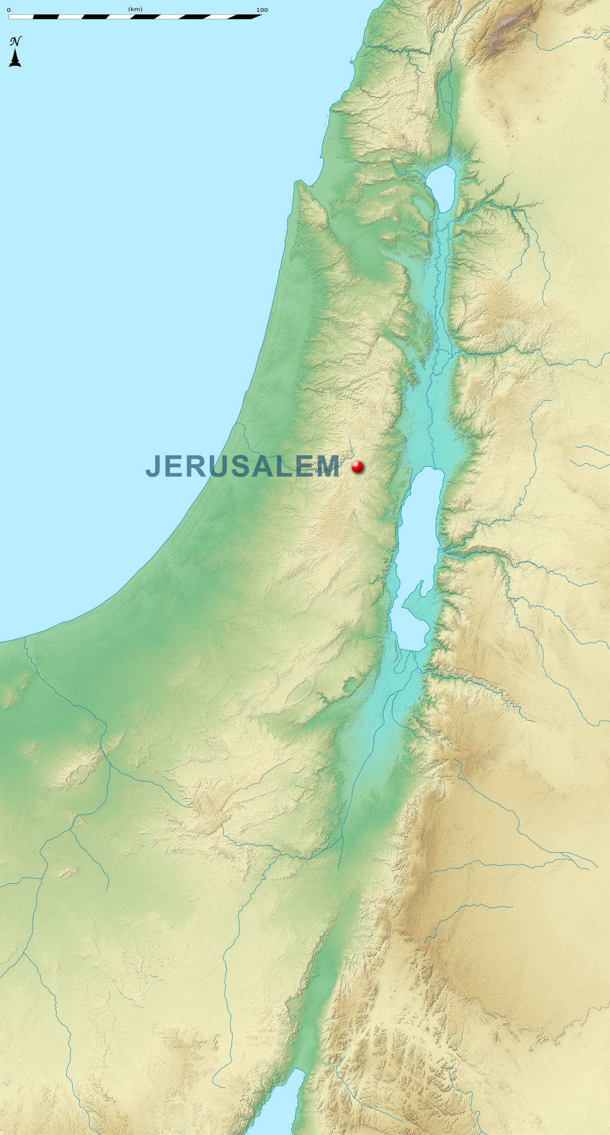 Modified version of File:Israel_relief_location_map.jpg, by Eric Gaba, with the addition of Jerusalem location to relief image.